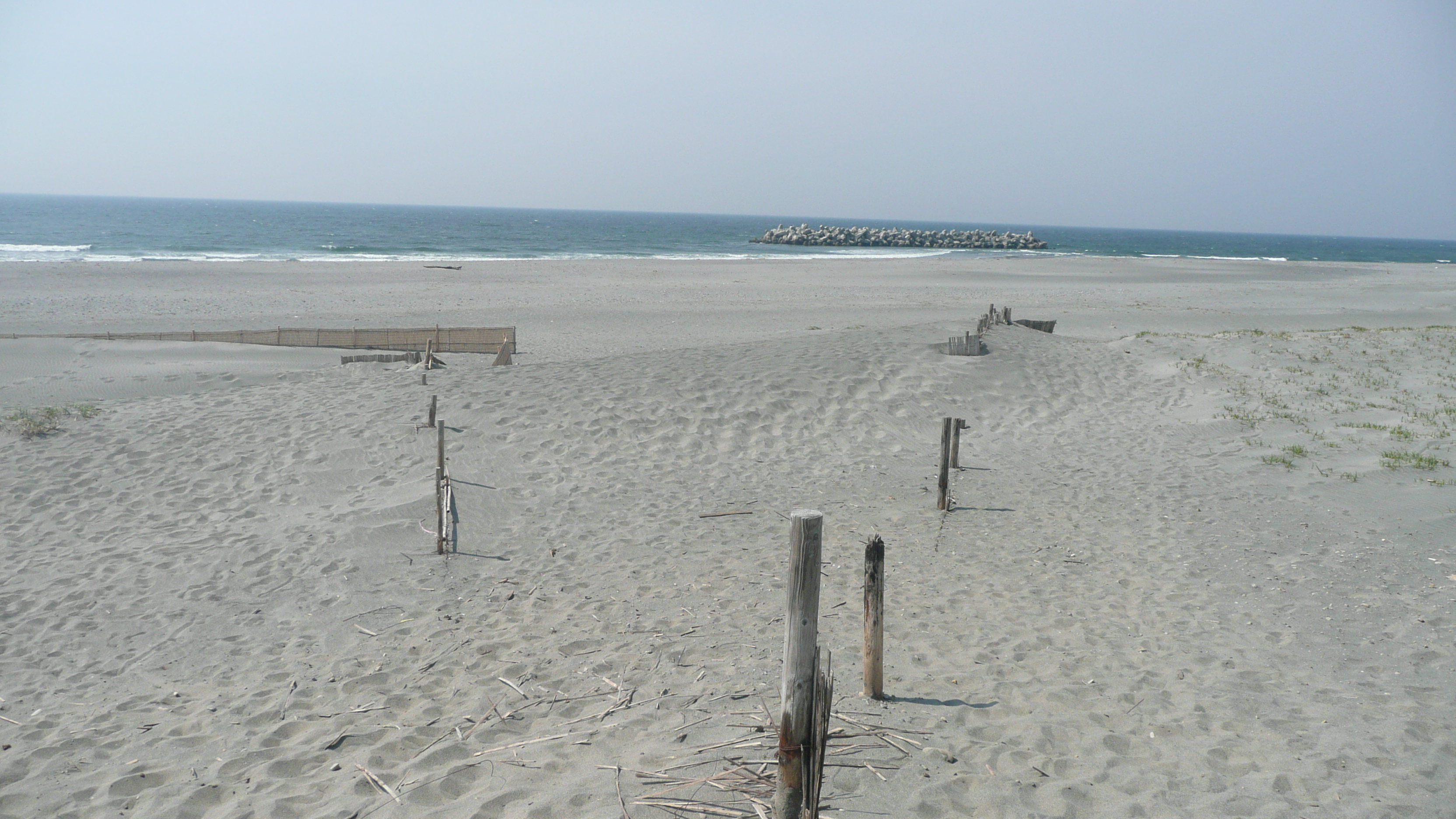 Nakatajima Sand Dunes, Hamamatsu, Japan